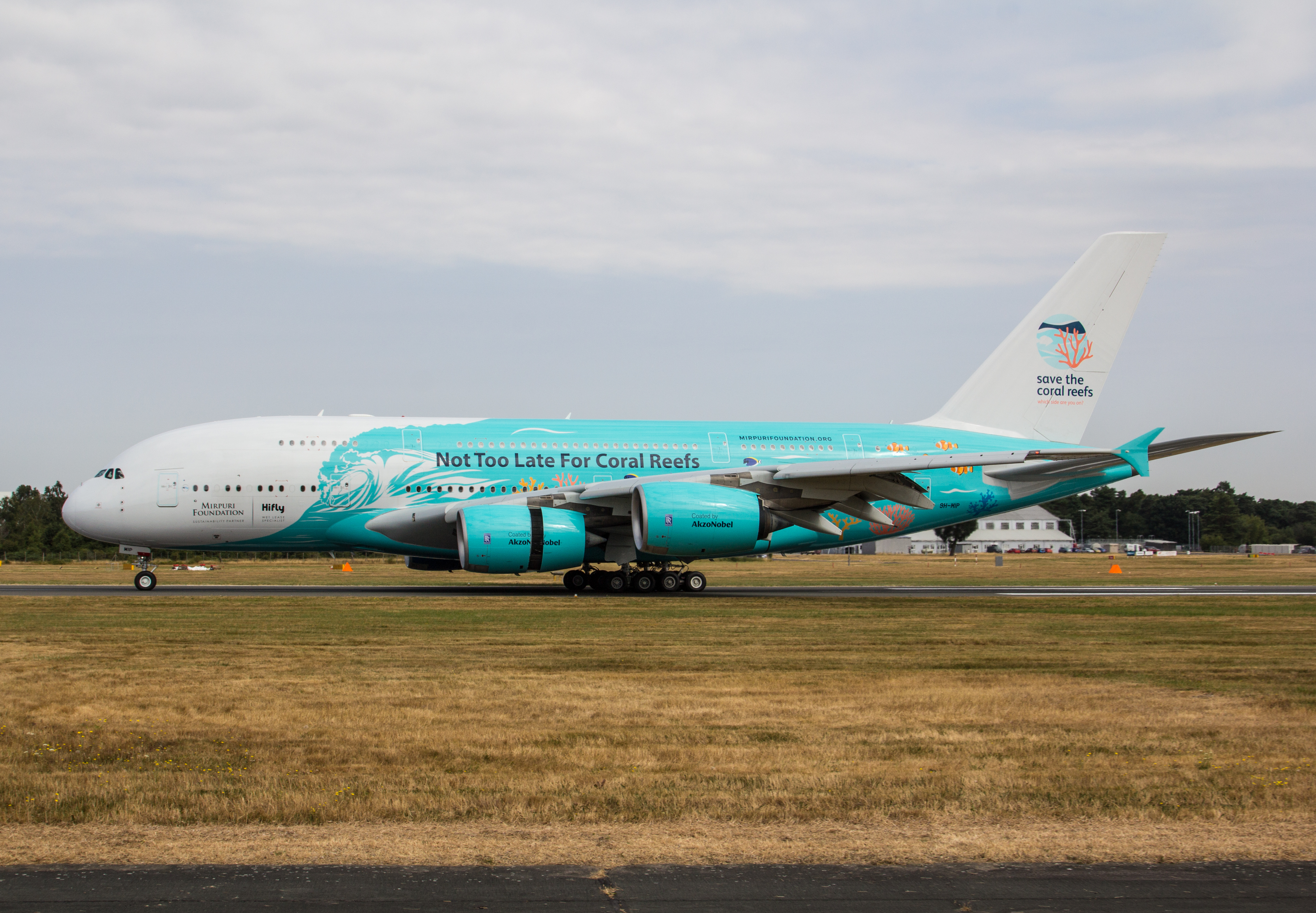 Farnborough International Airshow 2018, Hampshire